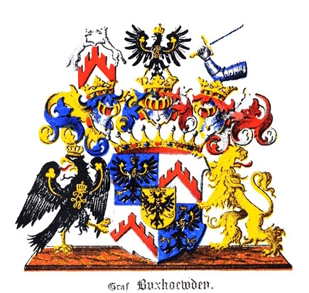 Coat of Arms of Buxhoeveden Counts